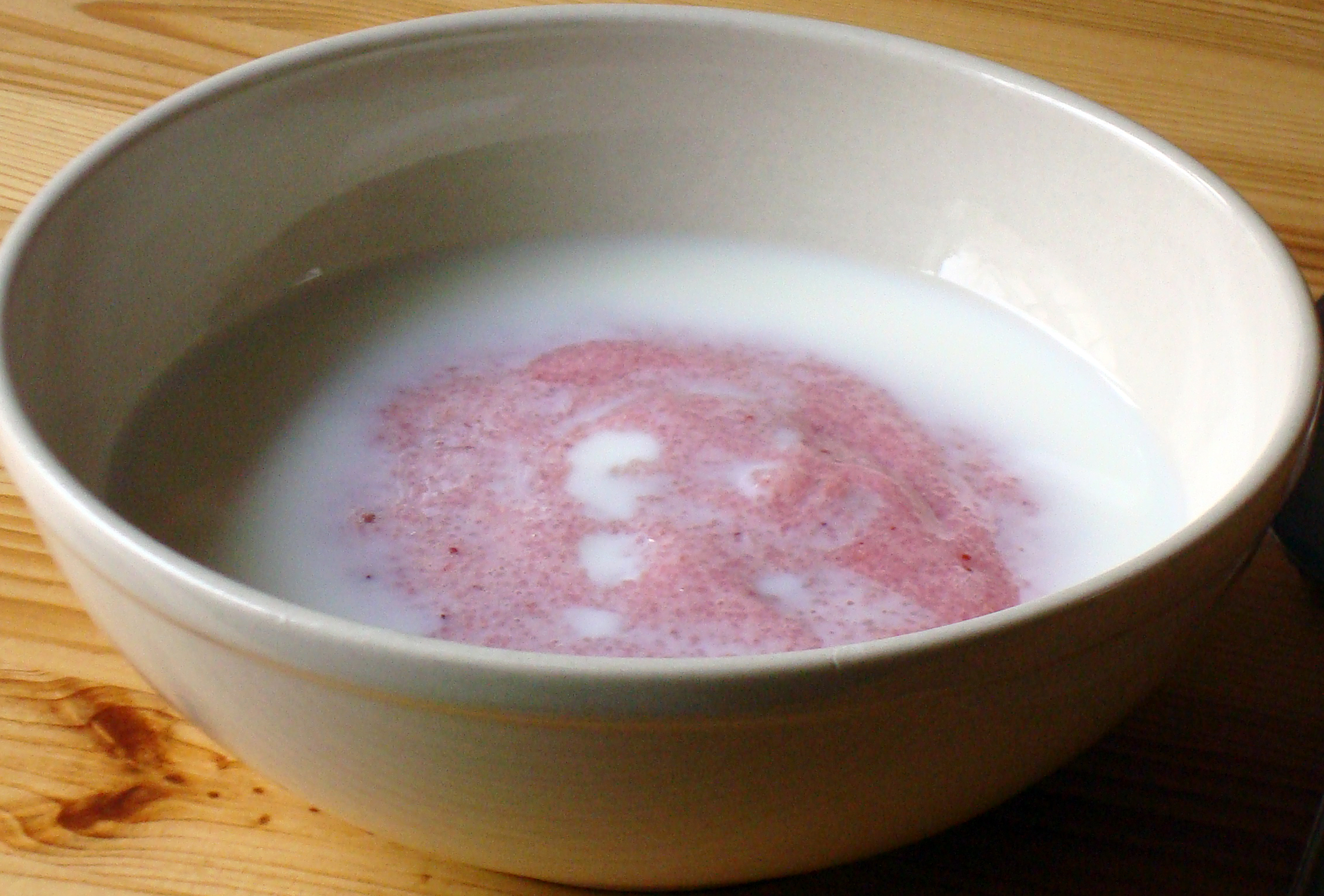 A bowl of Klappgröt, traditional Swedish dessert